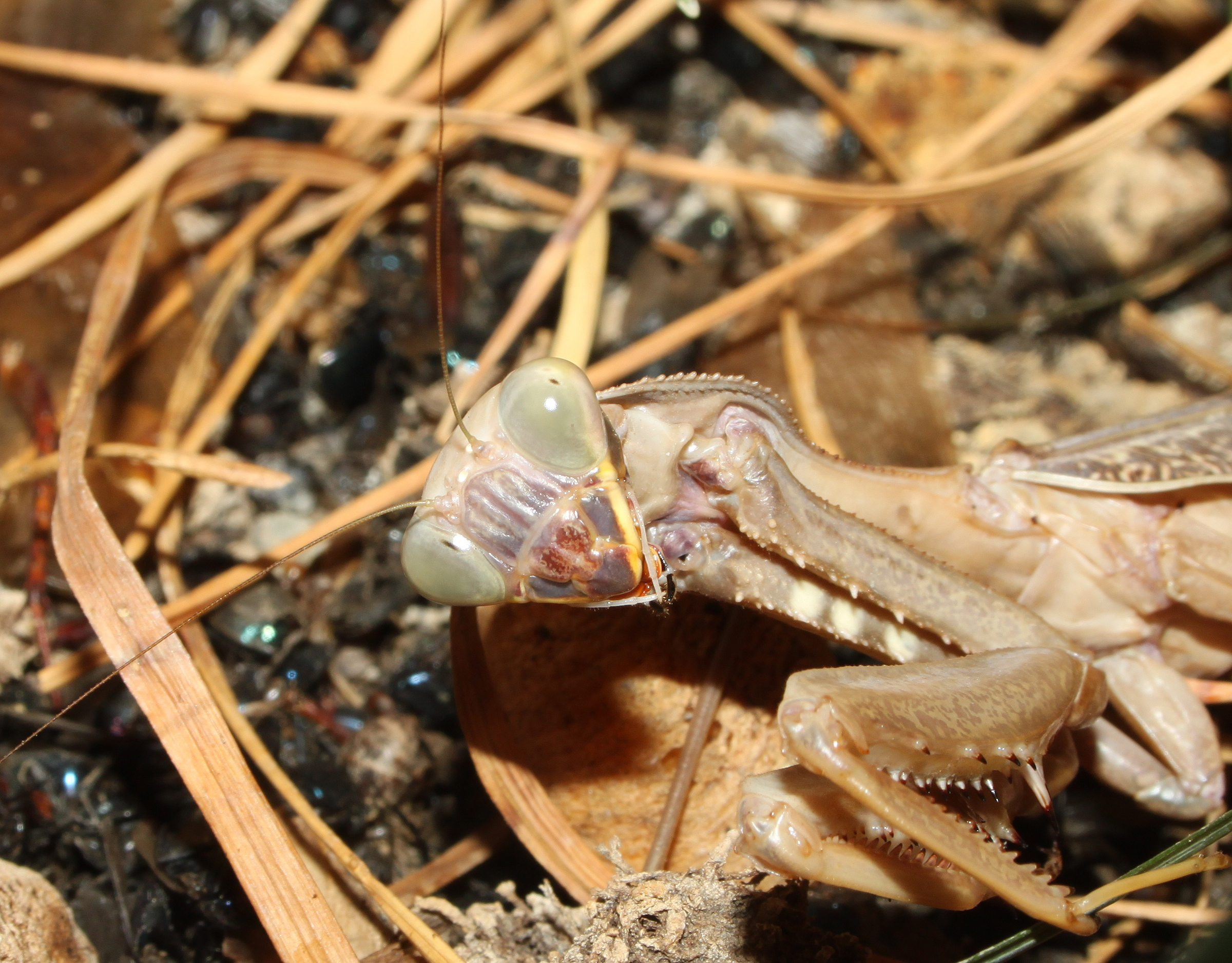 African mantis or African praying mantis, Sphodromantis lineola, Family: Mantidae